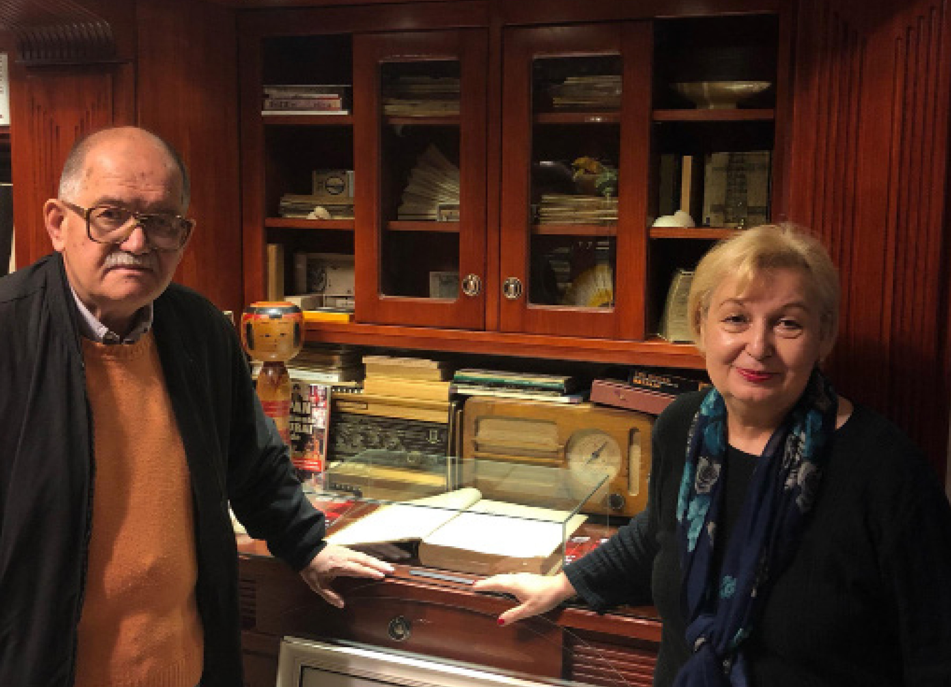 Darko Tanasković with Gorica Lazić in the Museum of Book and Travel, in front of his "Dictionnaire pratique Arabe-Francais" from 1871. Museum of Book and Travel is part of the Society for Culture, Art and International Cooperation Adligat in Belgrade, Serbia.